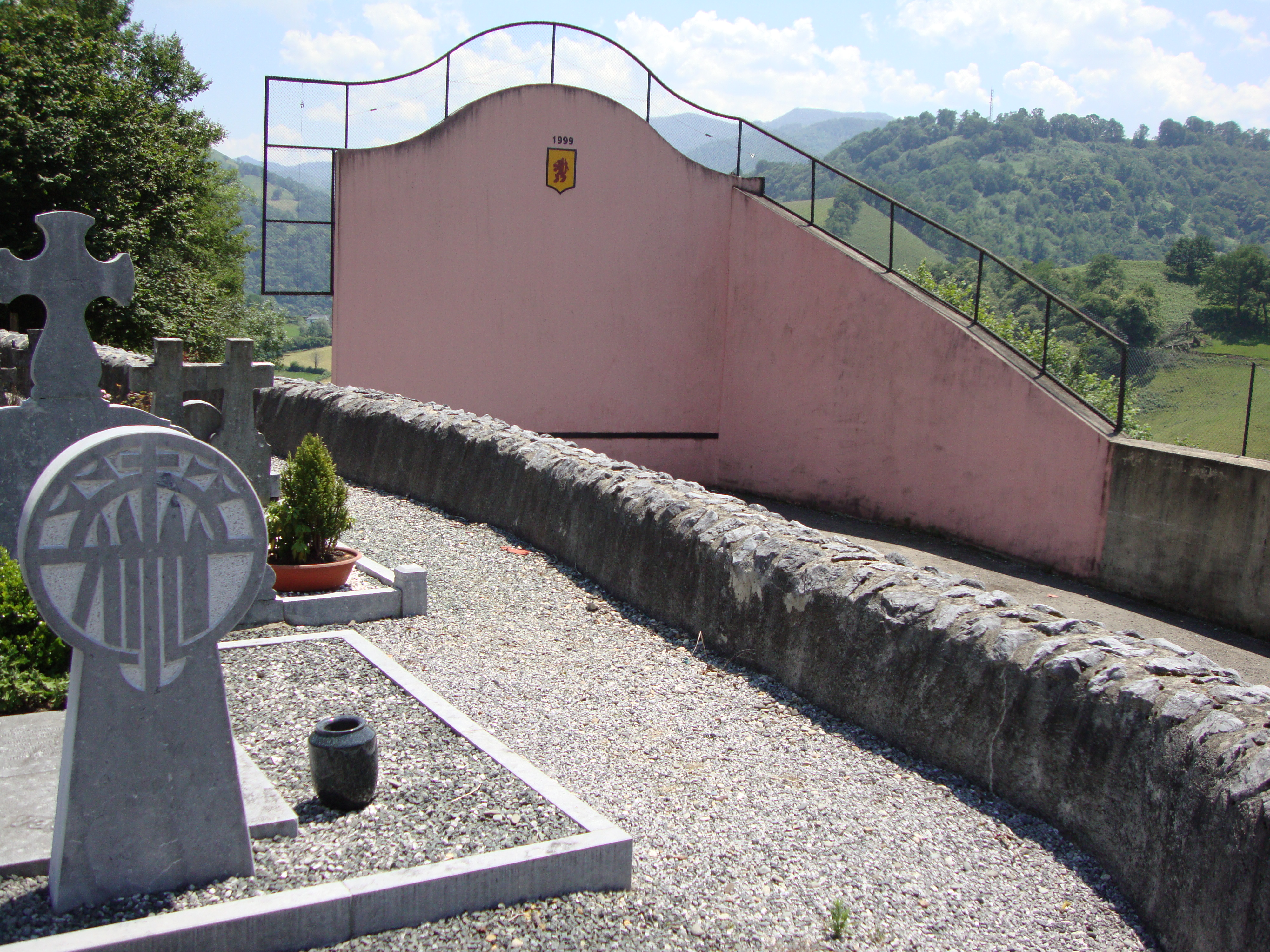 Etchebar (Pyr-Atl, Fr)pelota court viewed from the cemetery